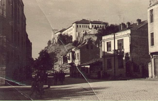 Skopje, Macedonia